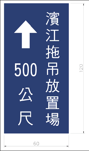 Taiwanese Guide Signs G52: Towed Car Area